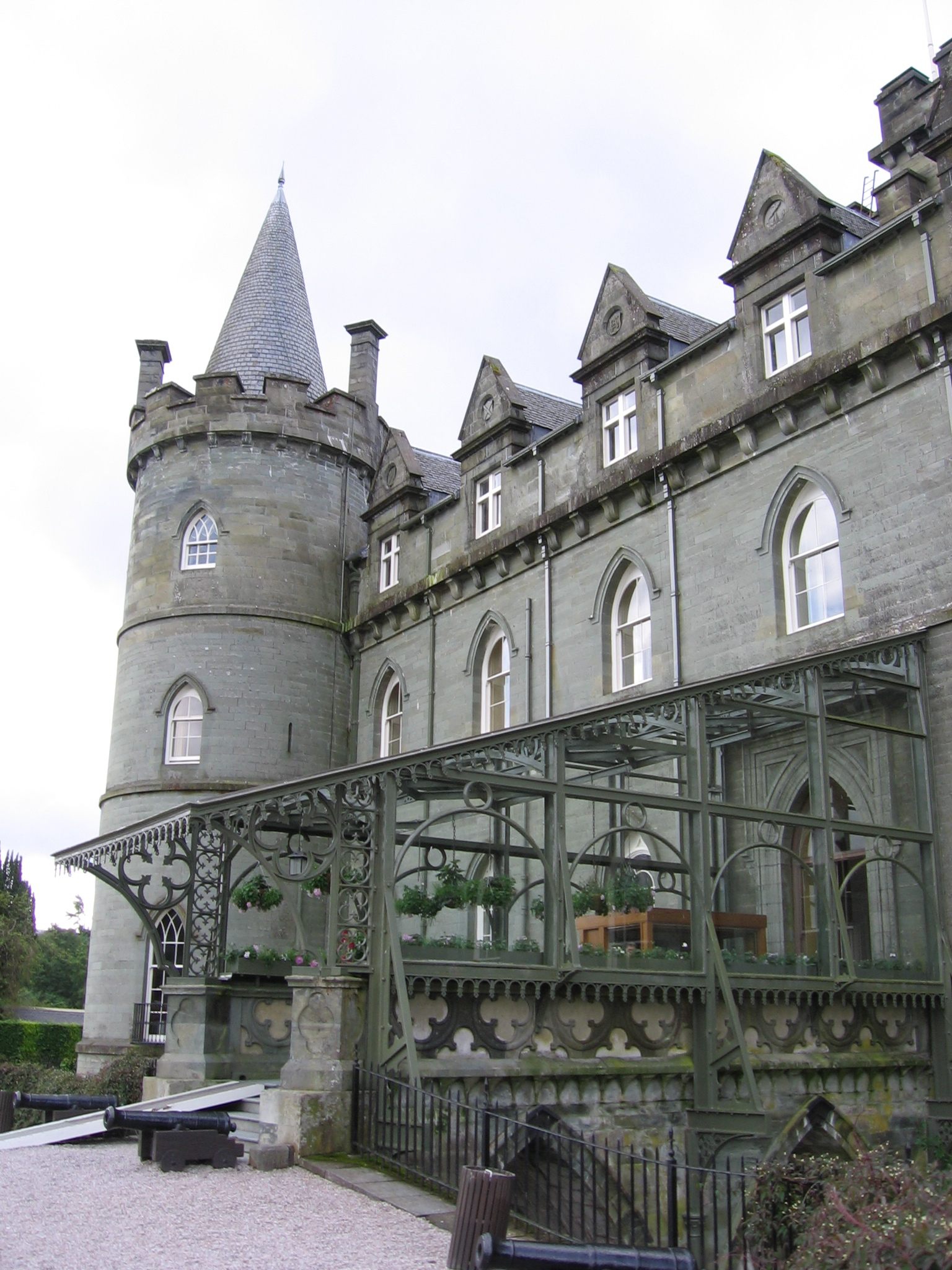 Inveraray Castle, main portal and one of the towers